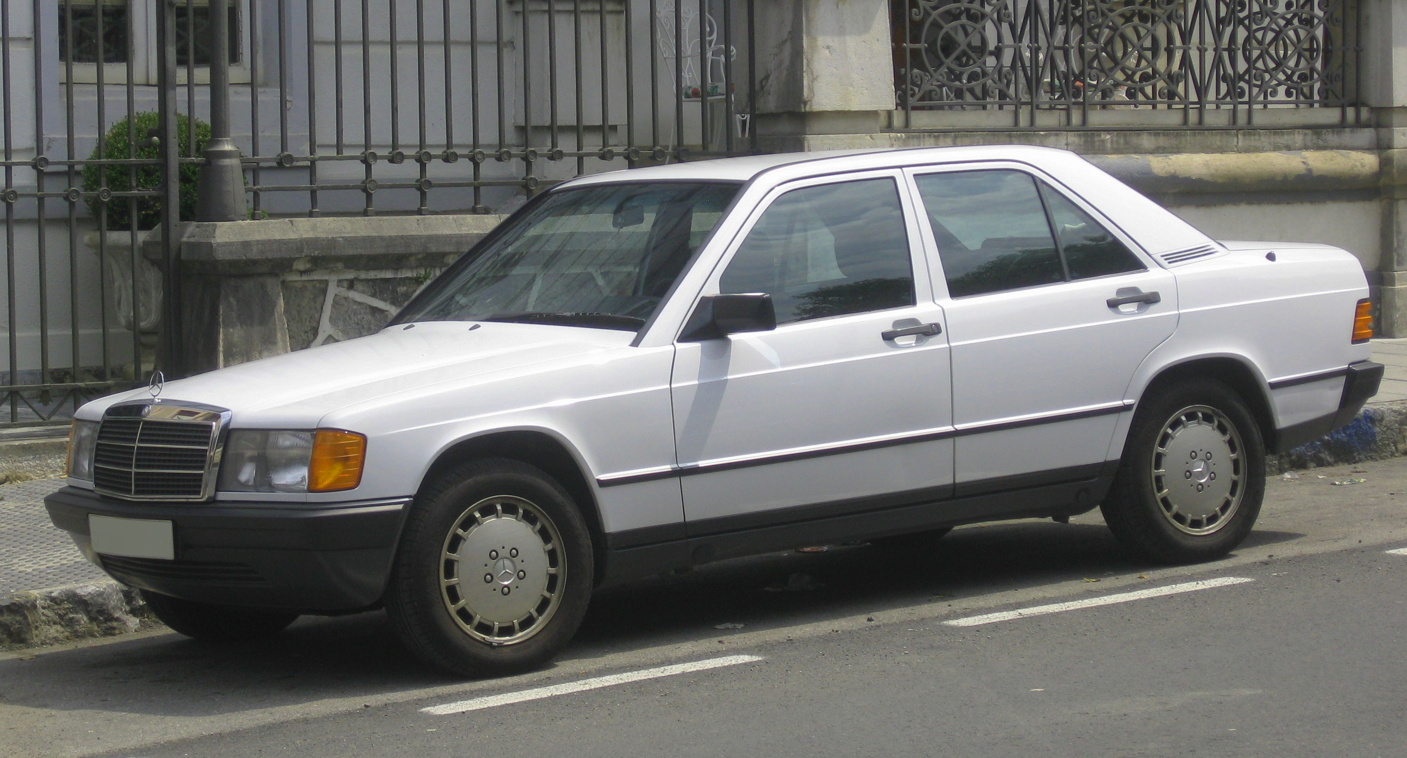 So very well cared and with the Mercedes-Benz wheels I've always liked the most. It had a 1996 plate from Santander and was spotted in Ramales de la Victoria (Cantabria).